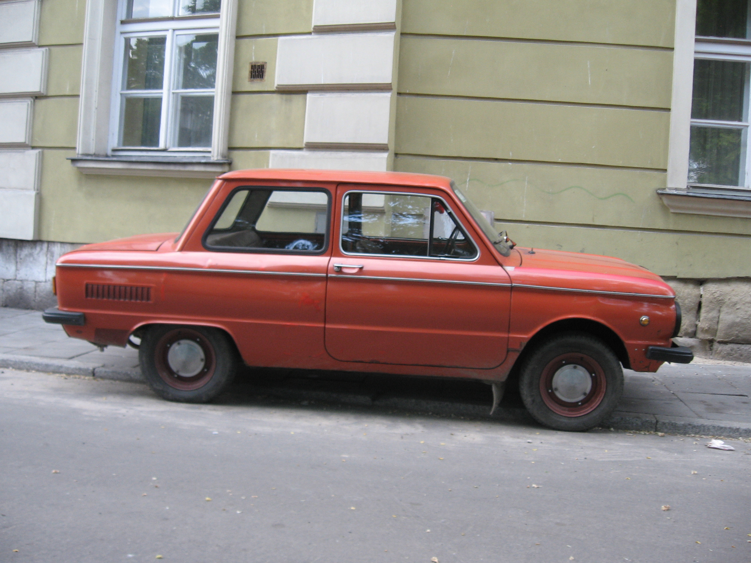 ZAZ-968M on Na Gródku street in Kraków.